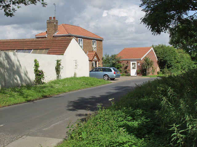 Swine Lane, Ganstead, East Riding of Yorkshire, England.Seen from close to its junction with the A165